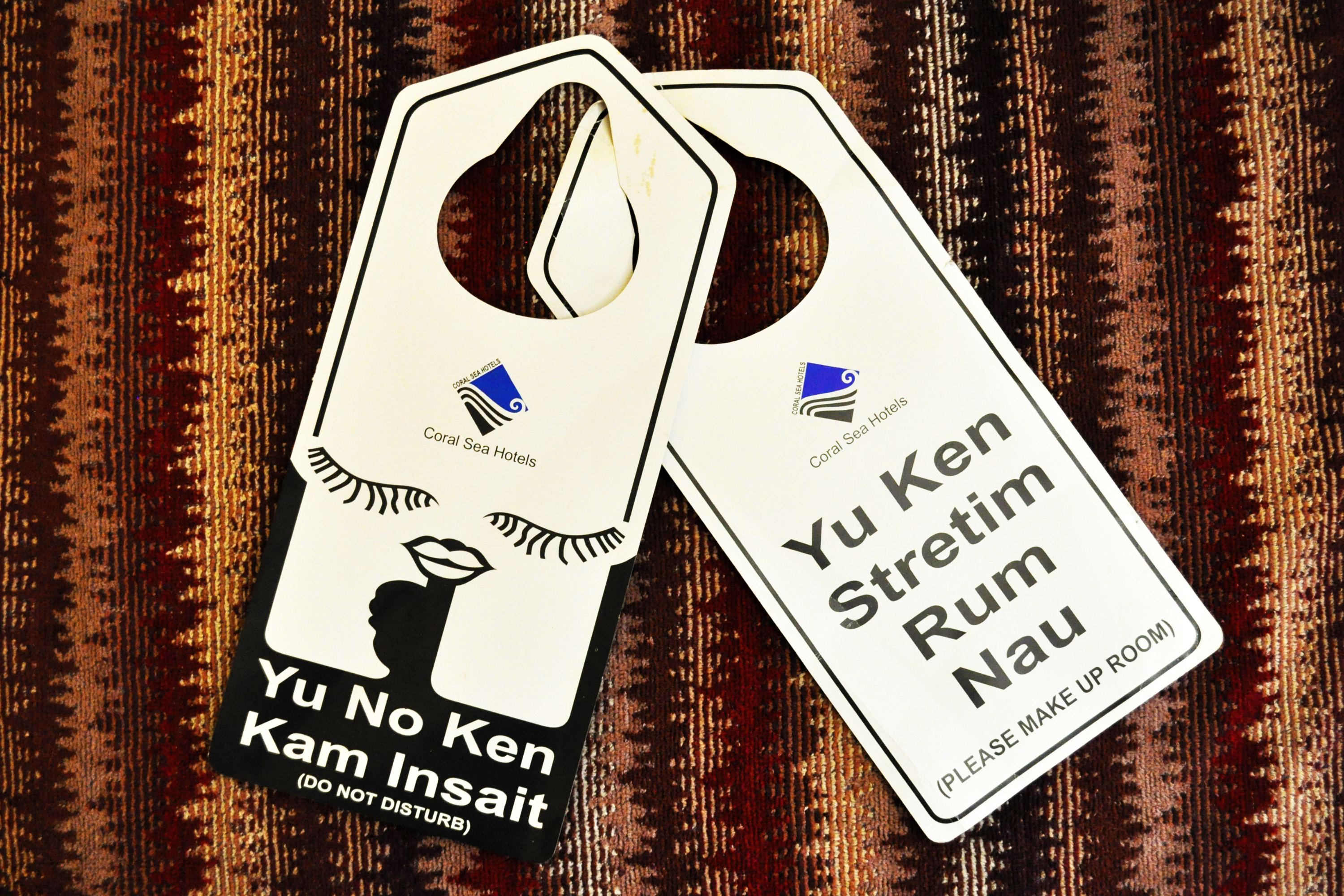 Yu No Ken Kam Inside (You no can come inside, or, Do not disturb), Yu Ken Stretim Rum Nau (You can straighten room now, or, Please make up room). Door signs in Coral Sea Hotels, Papua New Guinea, in language known as Tok Pisin, or New Guinea Pidgin, or Pidgin English, or Melanesian Pidgin.